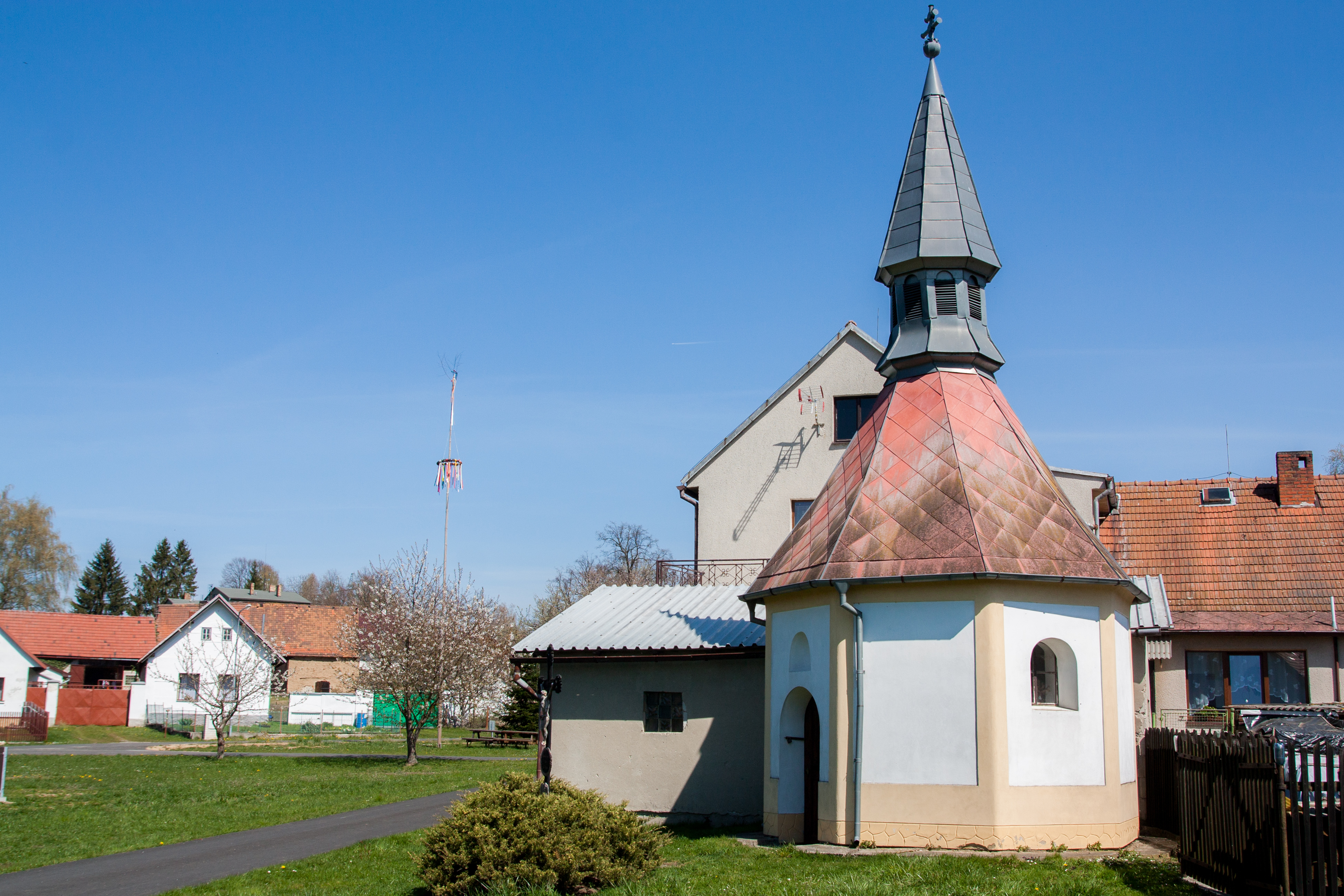 Chapel in municipality Rodná, Tábor District, South Bohemian Region, Czechia